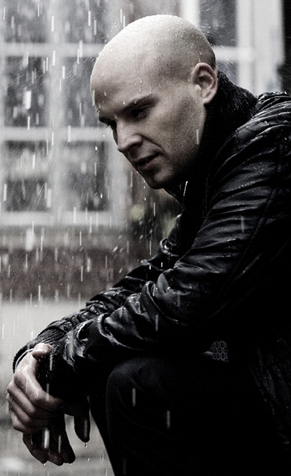 Håvard Lothe in the rain Norsk (bokmål): Håvard Lothe i hardt vér